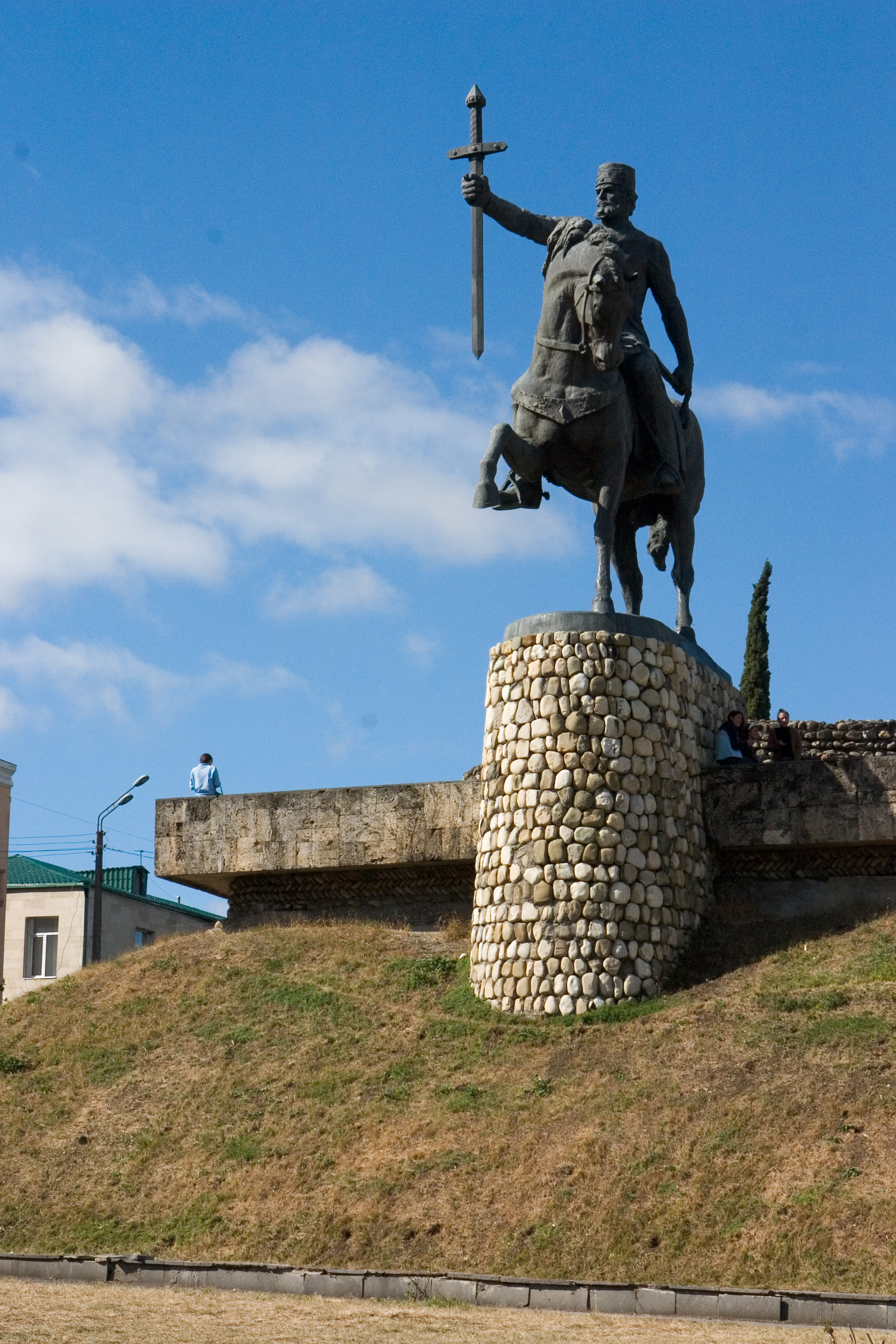 Monument of king Erekle II by Merab Merabishvili He was married three times; first, he married in 1738 Princess Ketevan née Orbeliani (died 1750), but divorced her in 1744. Next year, Erekle remarried Princess Anna née Abashidze (1730-1749). After her death, the king married Darejan née Dadiani (Daria; July 20, 1738-November 8, 1807). Erekle fathered thirteen sons and ten daughters. Sons Vakhtang (1738-1756) Solomon (died 1765) George Levan (1756-1781) Yolon (1760-1816) Vakhtang (1761-1814) Teimuraz (1763-1827) Mirian (1767-1834) Soslan-David (died c. 1767) Alexander (1770-1844) Archil (died c. 1771) Luarsab (born 1772; died young) Parnaoz (1777-1852) Daughters Rusadan (b. before 1744; died young) Thamar (1747-1786) Mariam (c. 1750-1829) Helene (1753-1786) Sophia (c. 1756; died young) Salome (c. 1761; died young) Anastasia (1763-1838) Ketevan (1764-1840) Thekla (1775-1846) Ekaterine (1776-1818)